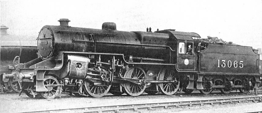 Typical British Freight Locomotives "Mogul" (2-6-0) Mixed Traffic Locomotive, LMS